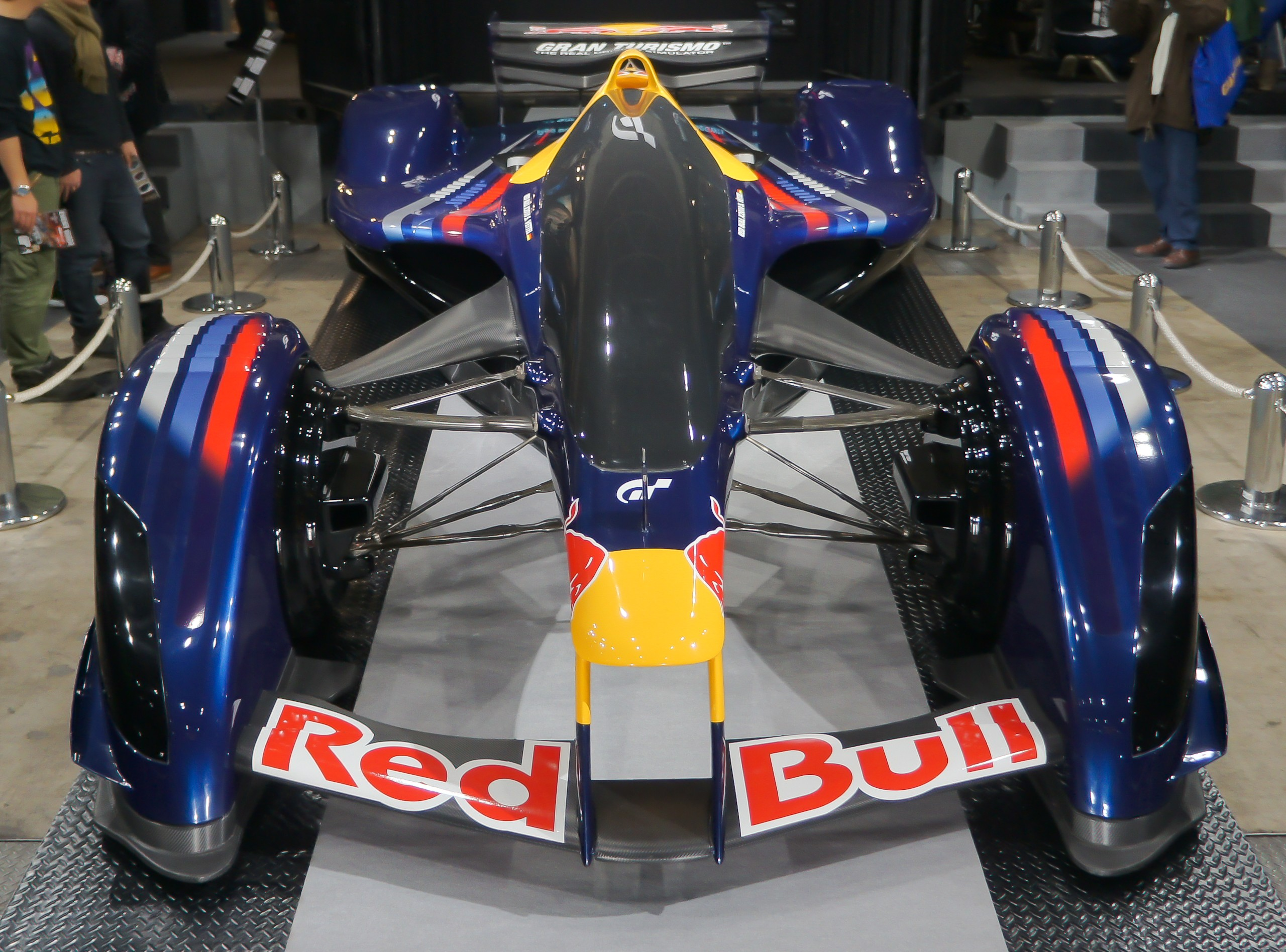 Tokyo Auto Salon 2012: Red Bull X2010